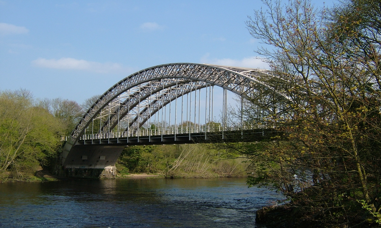 Points Bridge, Wylam. Taken by myself (Craig Hennessey) on 21st April 2005. The picture is taken from the southern side of the River Tyne.